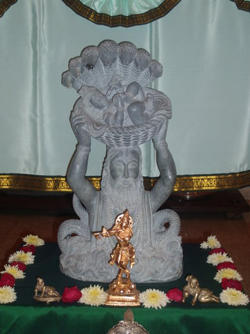 Baby Krisna being carried in basket by Vasudeva wading through the Yamuna river